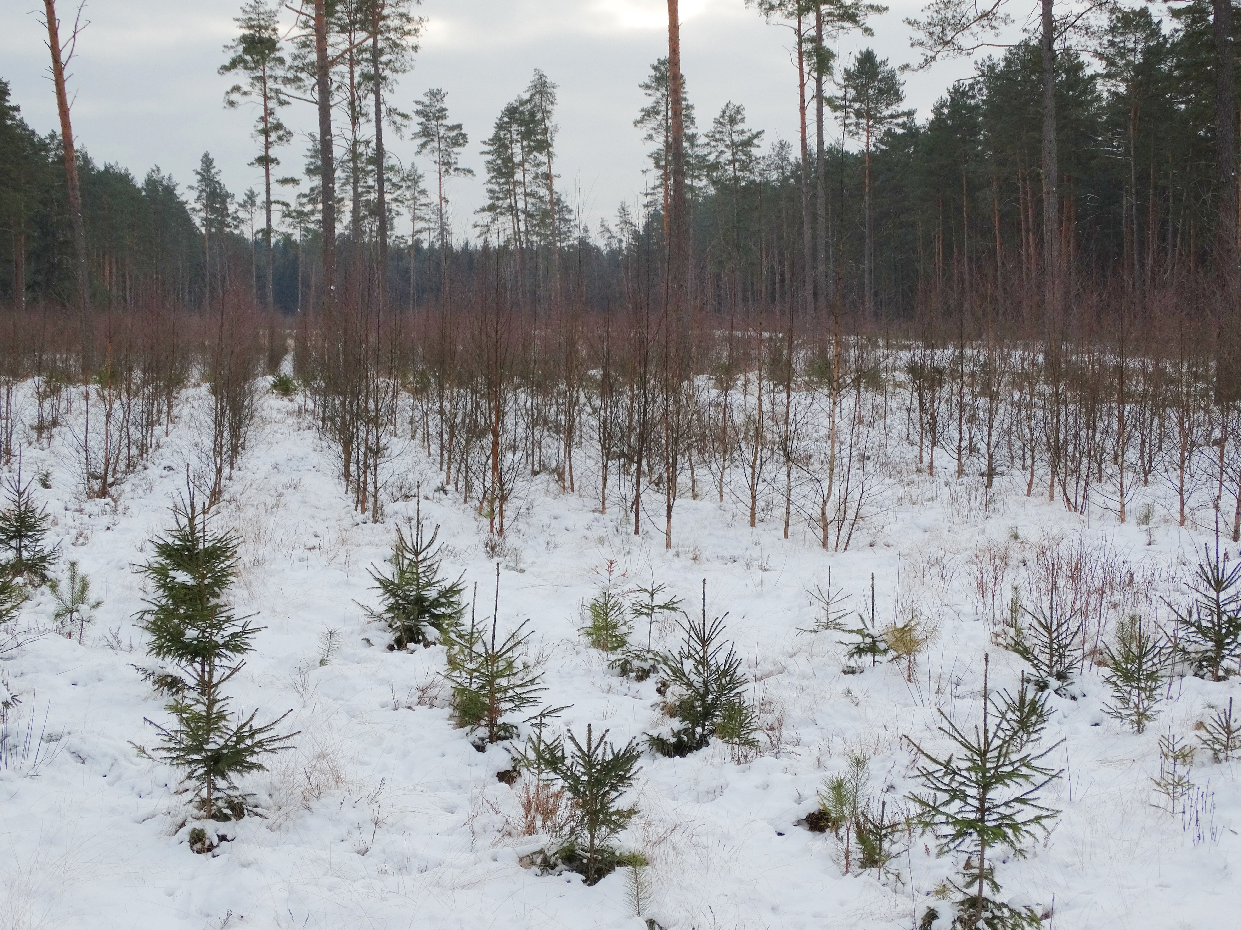 Geoglyph, inscription from the trees Žalgiris 600 (beginning), Bezdonys, Vilnius district, Lithuania